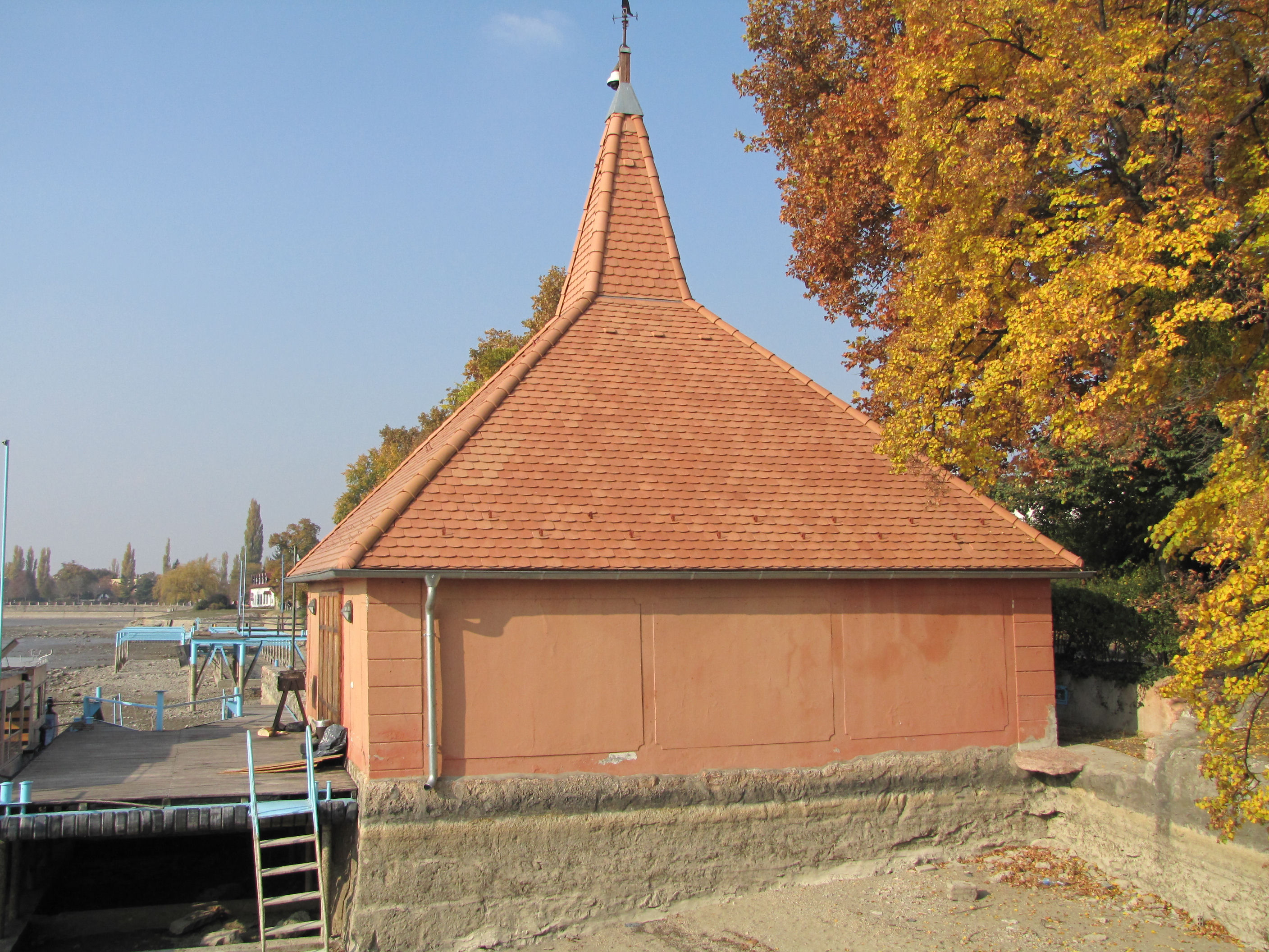 Slaughterhouse from the 18th Century in Tata, Hungary. Architect: Jakab Fellner.